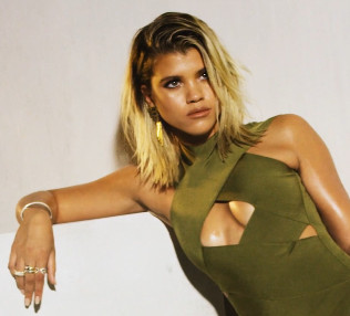 Image of model Sofia Richie at photoshoot